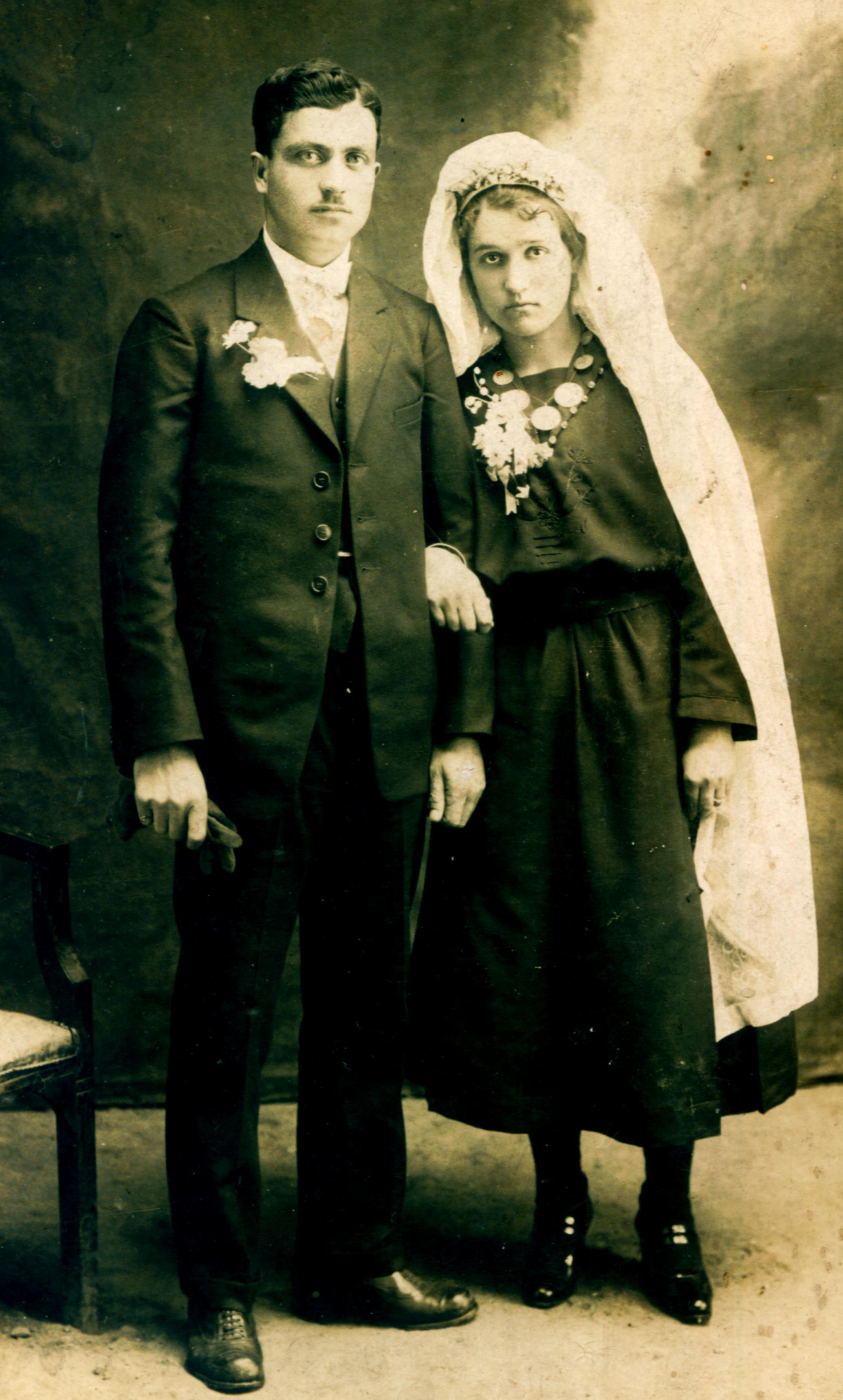 wedding photo of Minco & Todora Bogdanovi 1923